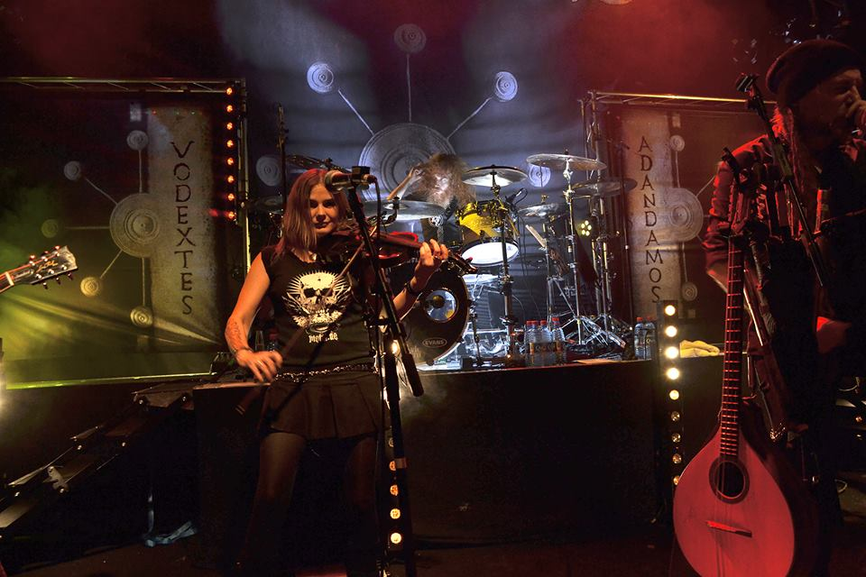 Nicole Ansperger live with Eluveitie at The Button Factory, Dublin on november 15, 2014 for the Origins World Tour